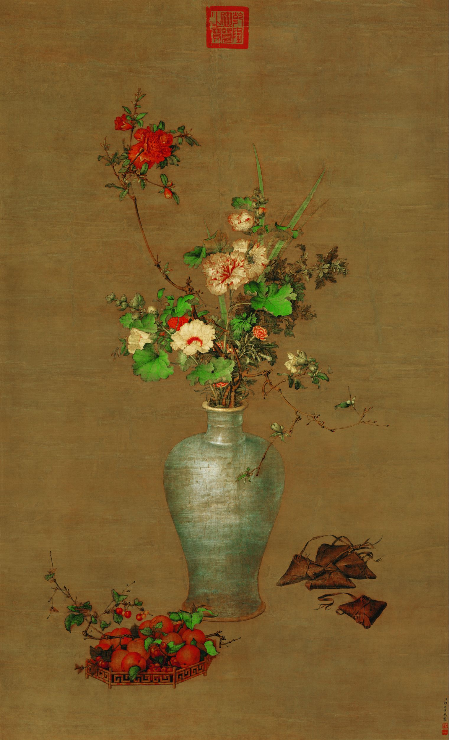 Followers in the Vase, hanging scroll, ink and colors on silk, 84×140 cm, located in the Palace Museum in Beijing.